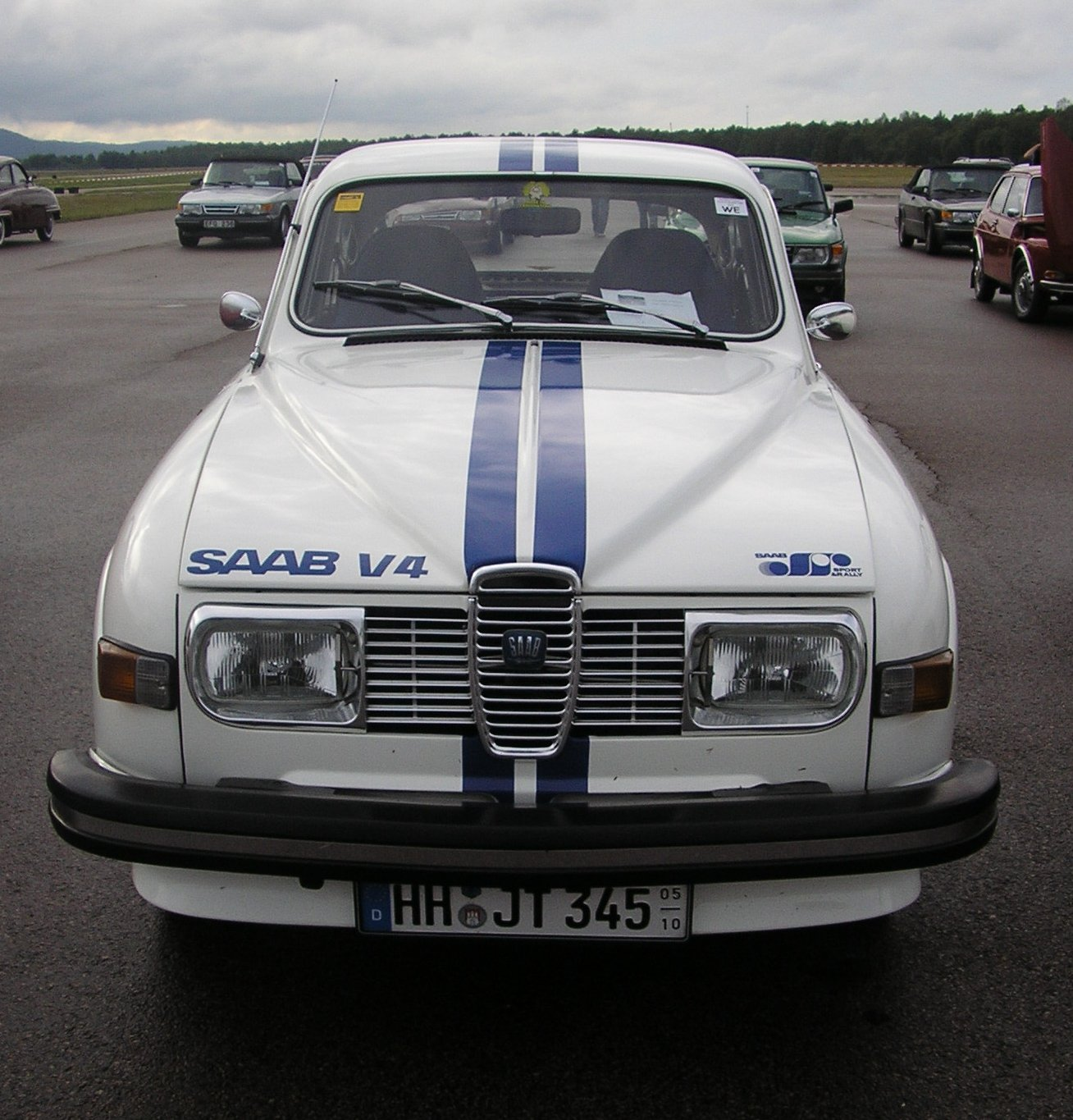 SAAB 96 V4 at the International SAAB Club Meeting 2006.